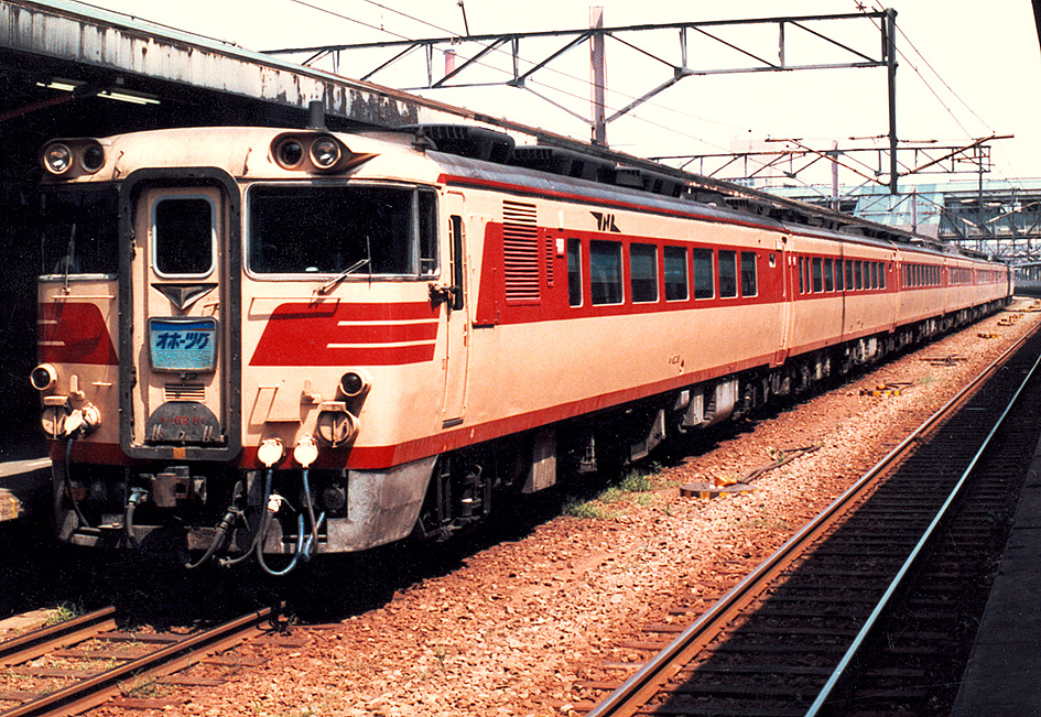 JNR KiHa 80 series DMU on an Okhotsk limited express service